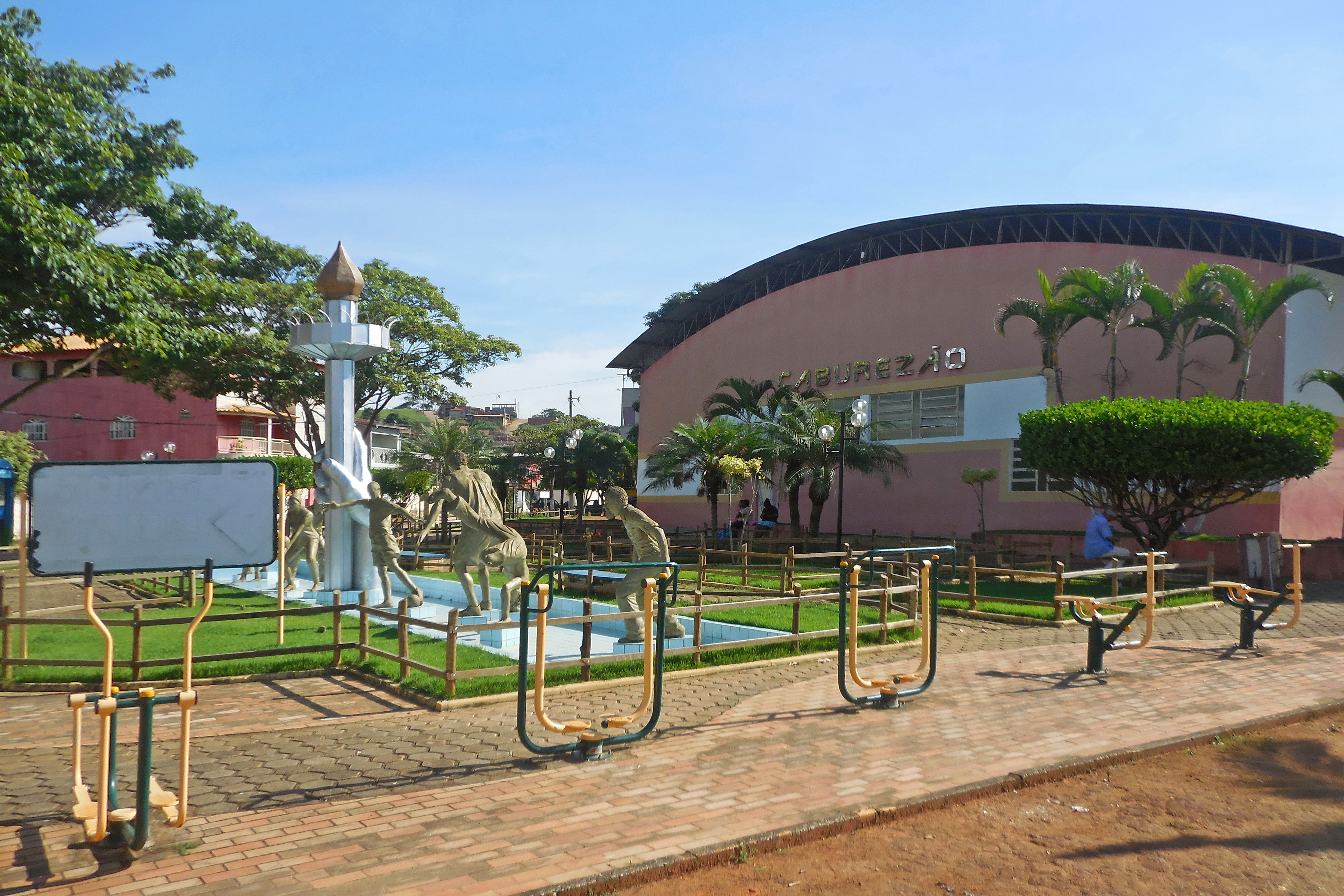 View of the Multi-sport gym Caburezão, in Pingo-d'Água, Minas Gerais, Brazil.